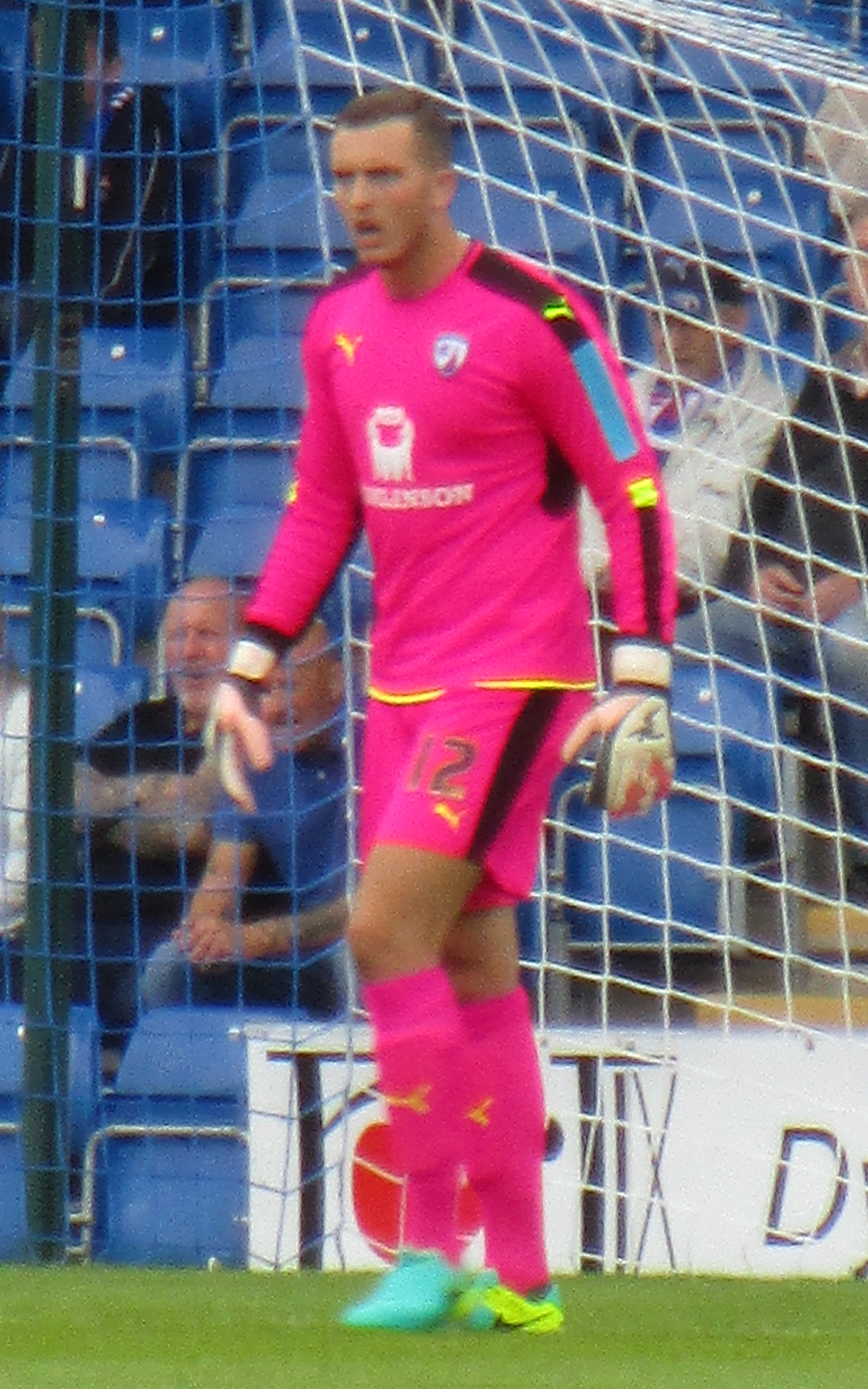 Ryan Fulton playing for Chesterfield FC July 2016